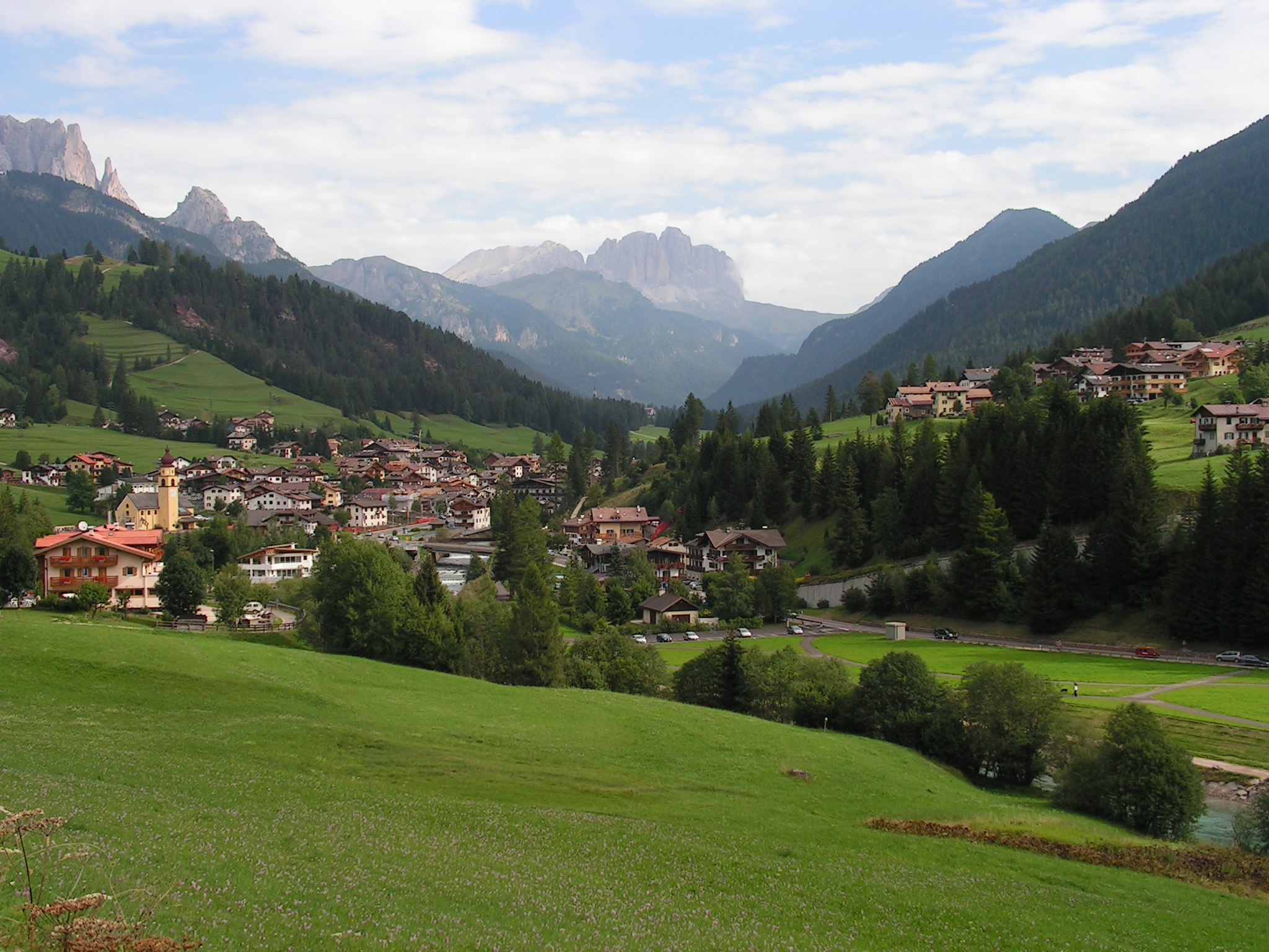 A view of Soraga (Italy)